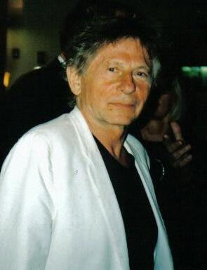 Actor and film director Roman Polański.